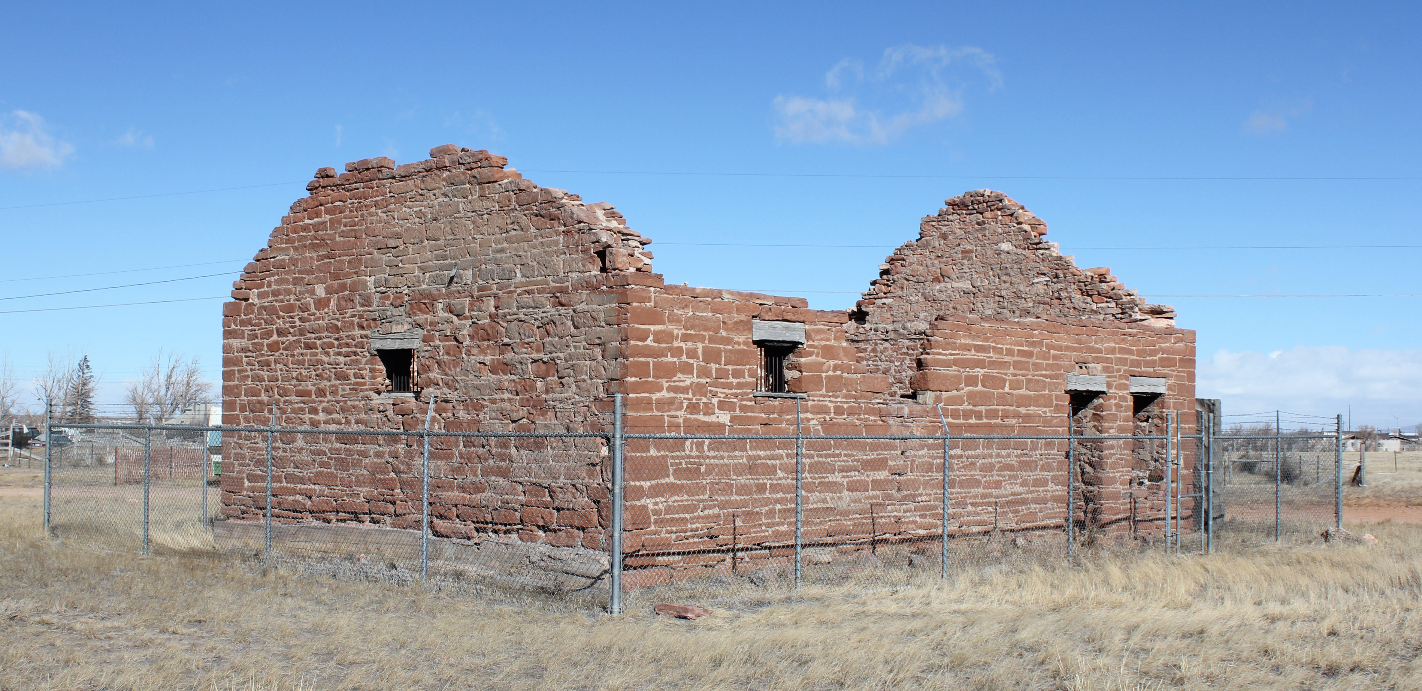 The Fort Sanders Guardhouse, located on Kiowa Street, about 50 meters east of its intersection with South Fort Sanders Road, near Laramie, Wyoming.